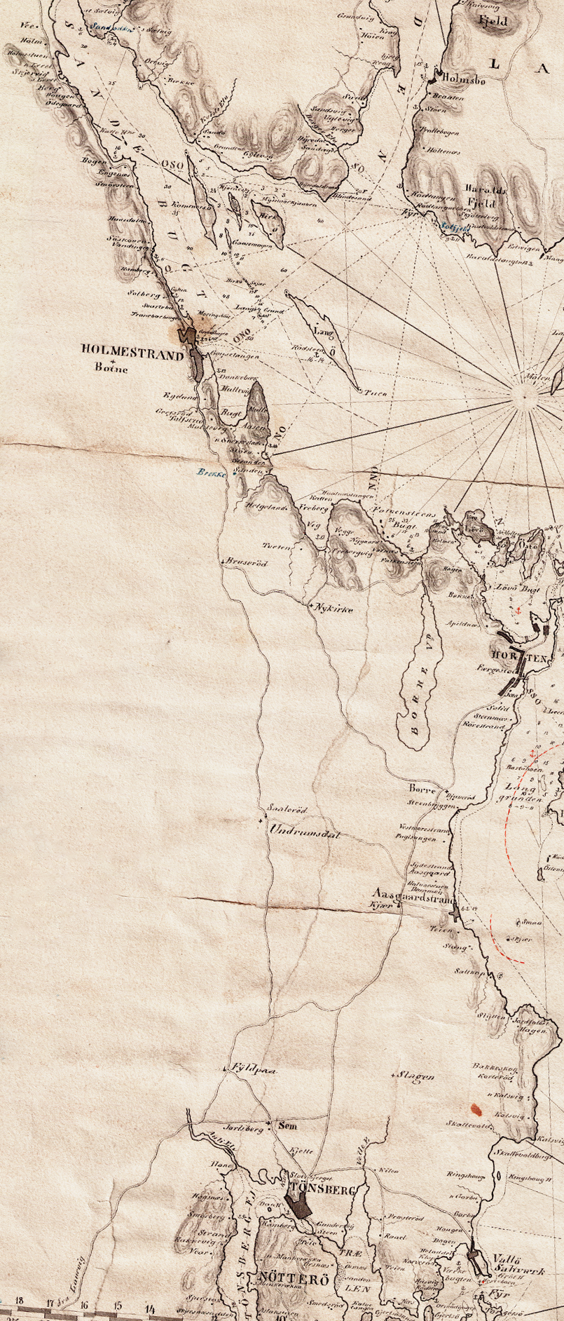 Crop of original file File:Sjøkart_over_den_nordlige_delen_av_Oslofjorden_fra_1852.png Nautical chart of the Oslo fjord, 1852. Drawn by hand by Vibe.